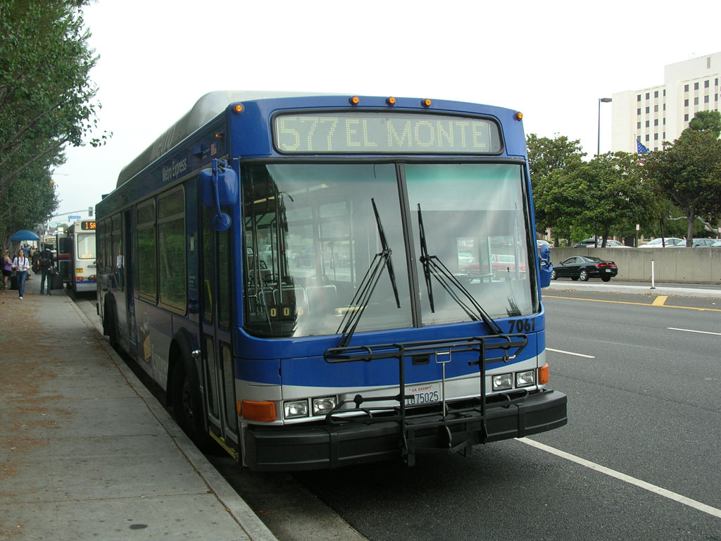 Picture of the Los Angeles Metro Express bus.